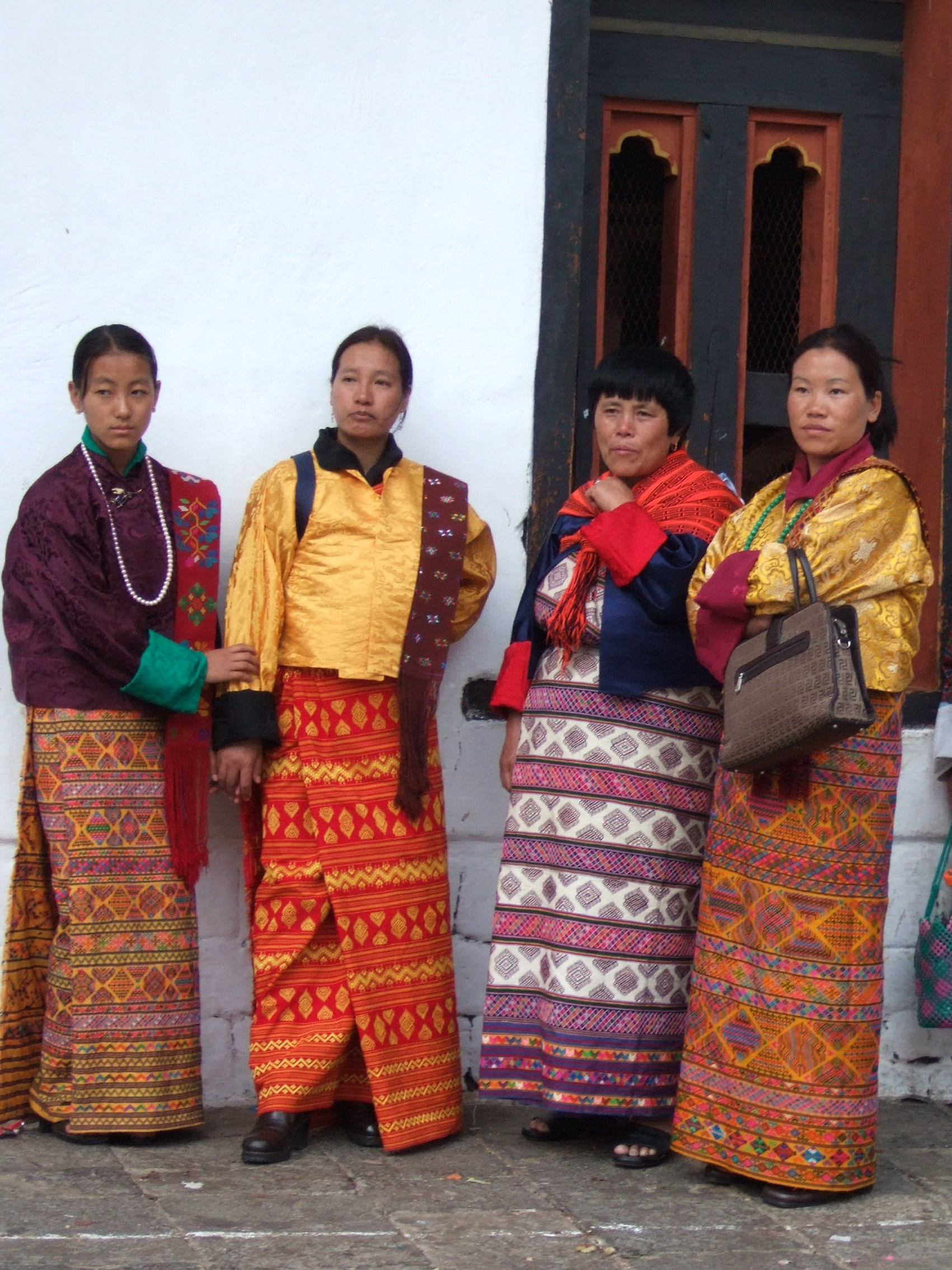 Bhutanese women at festival in national dress. (Kira & Tego)